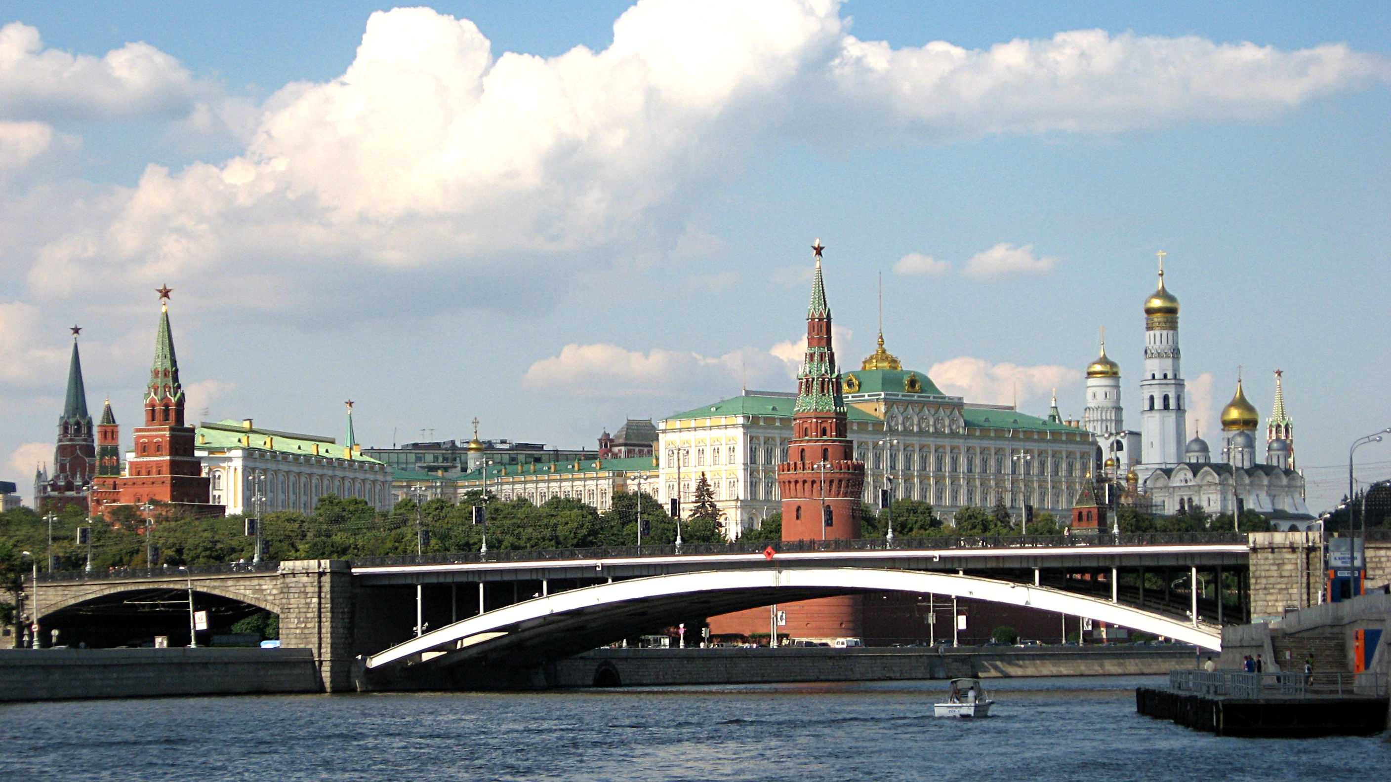 Moscow kremlin seen from the Moscova river